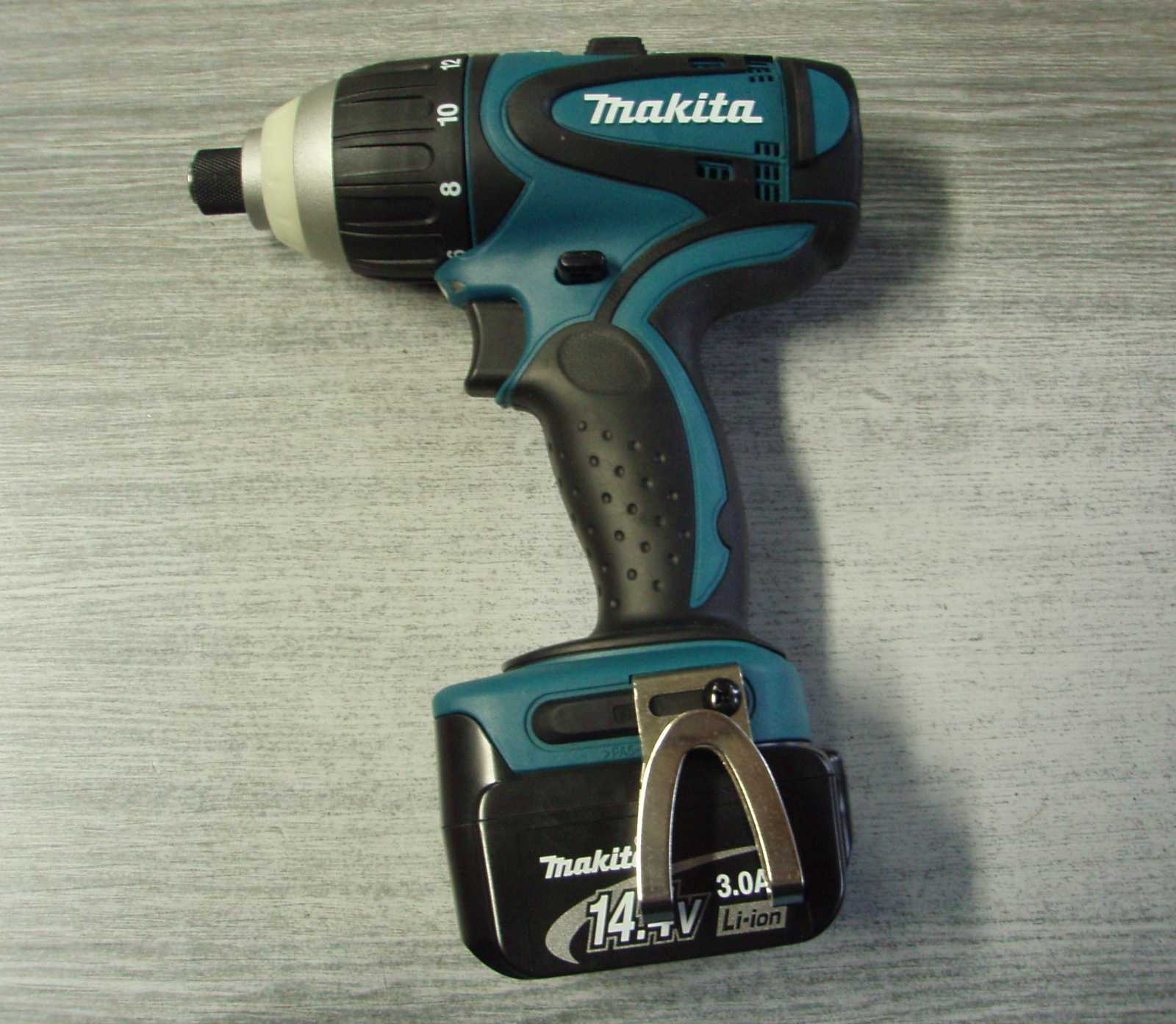 Makita Impact Screwdriver 14,4V 3.0 Ah Li-ion technology